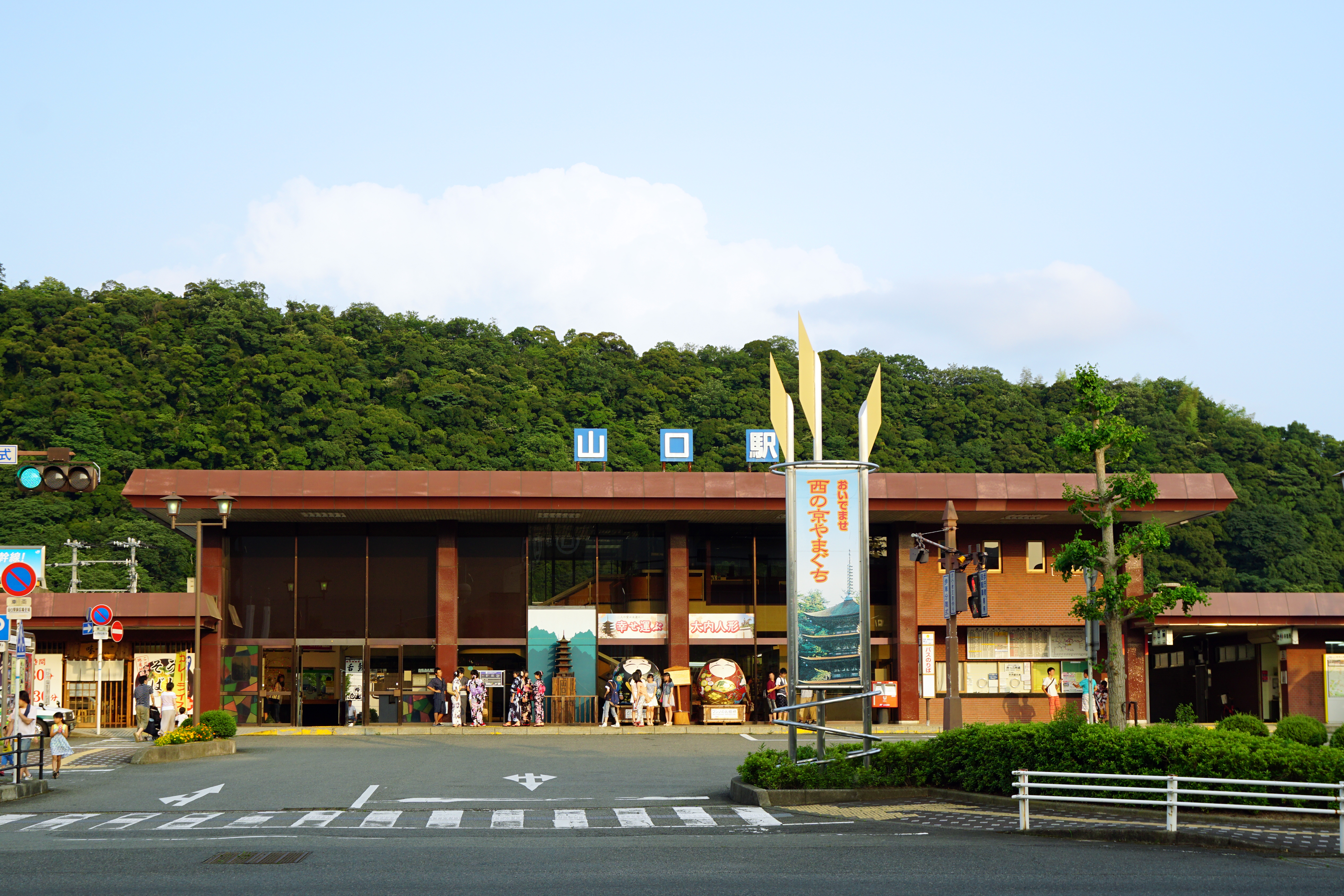 Yamaguchi Station in Yamaguchi, Yamaguchi prefecture, Japan.